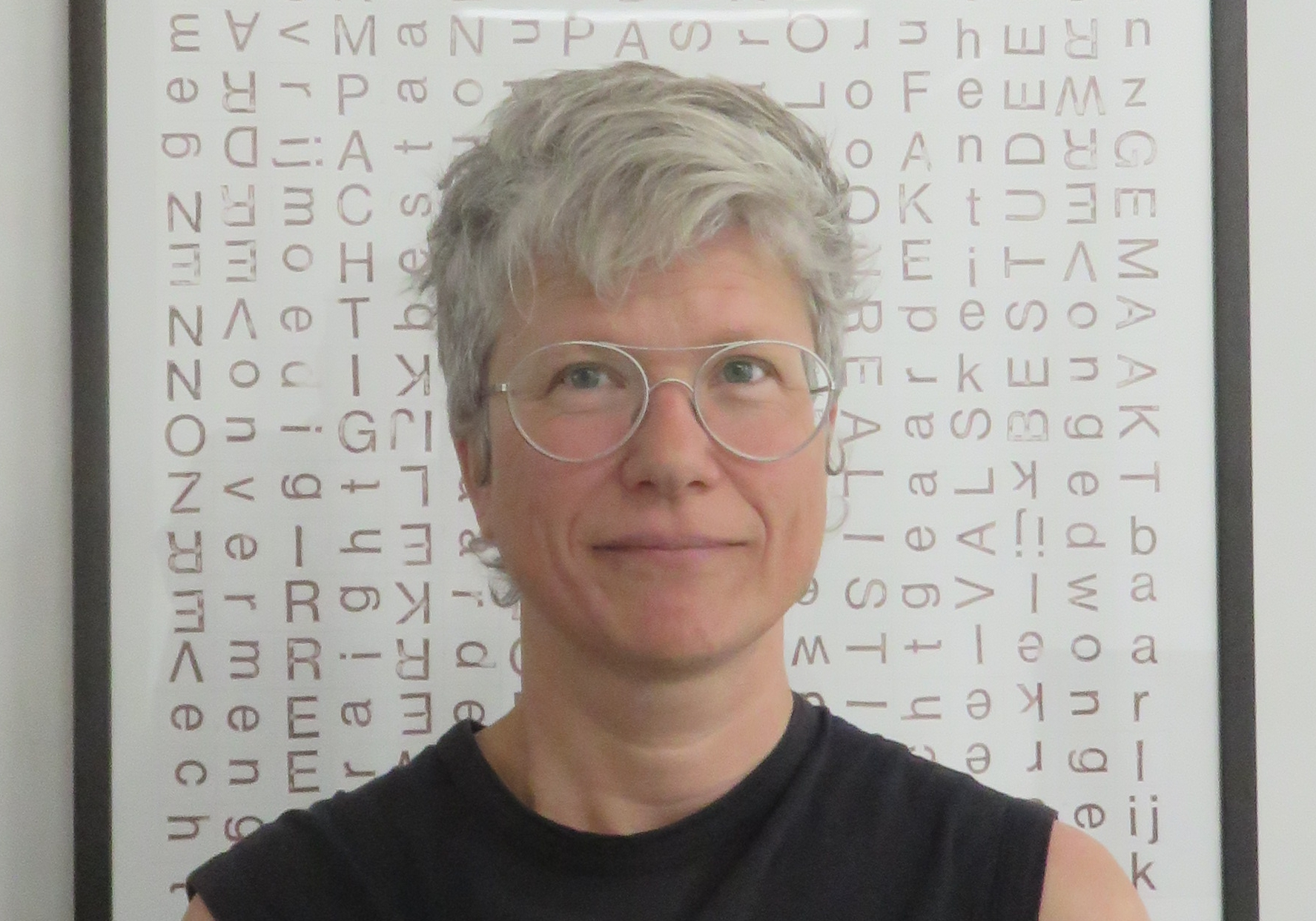 Milou van Ham portrait, 2018